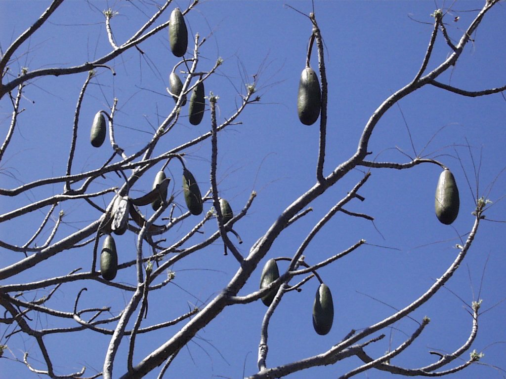 Entandrophragma caudatum in fruit nr Tambuti Camp, Lapalala, Waterberg, South Africa